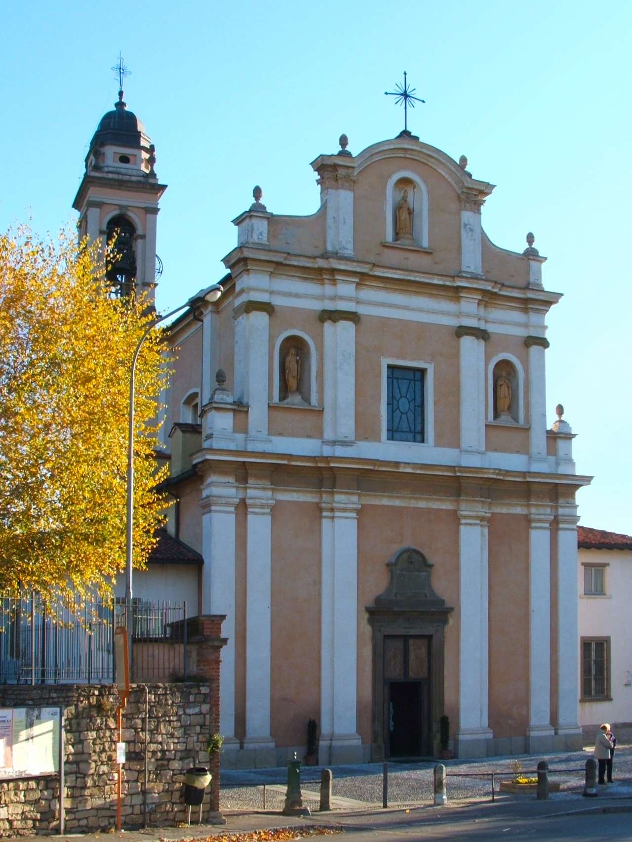 Bergamo, Lombardy, Italy - Saint Columbanus church